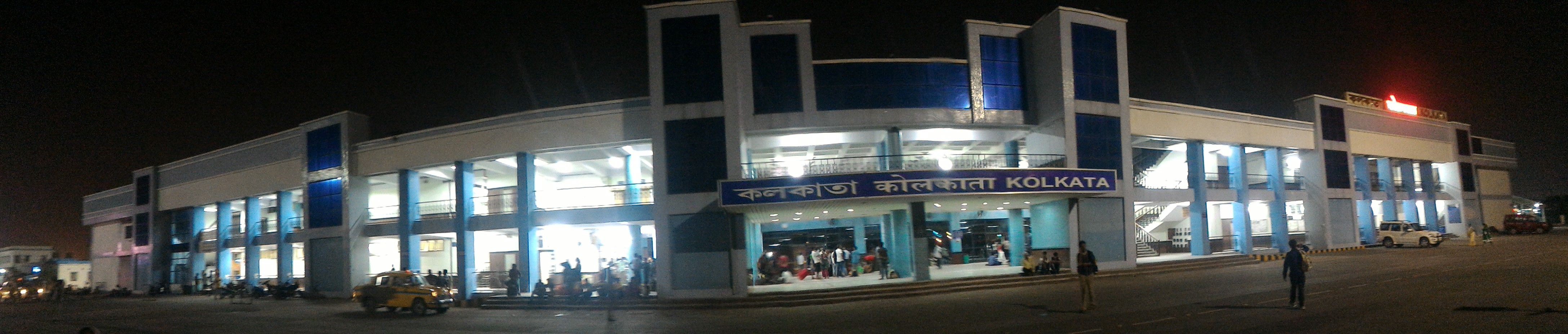 Panorama of Kolkata Station at night.